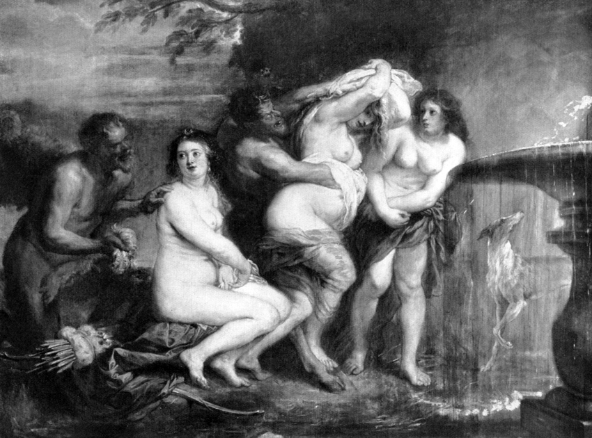 'Diana and Nymphs in the Bath Surprised by Satyrs', by Peter Paul Rubens, ca. 1635-1638. The painting was destroyed or disappeared in Berlin in May 1945, in the Friedrichshain flak tower fire. - Dimensions: 190 x 249 cm - Oil on canvas